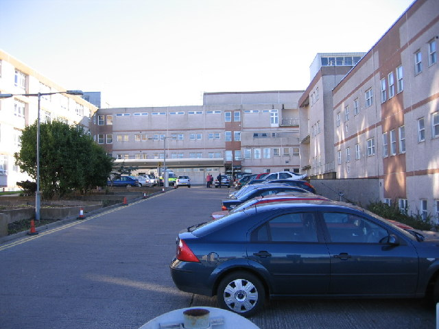 West Cumberland Hospital. The main entrance.